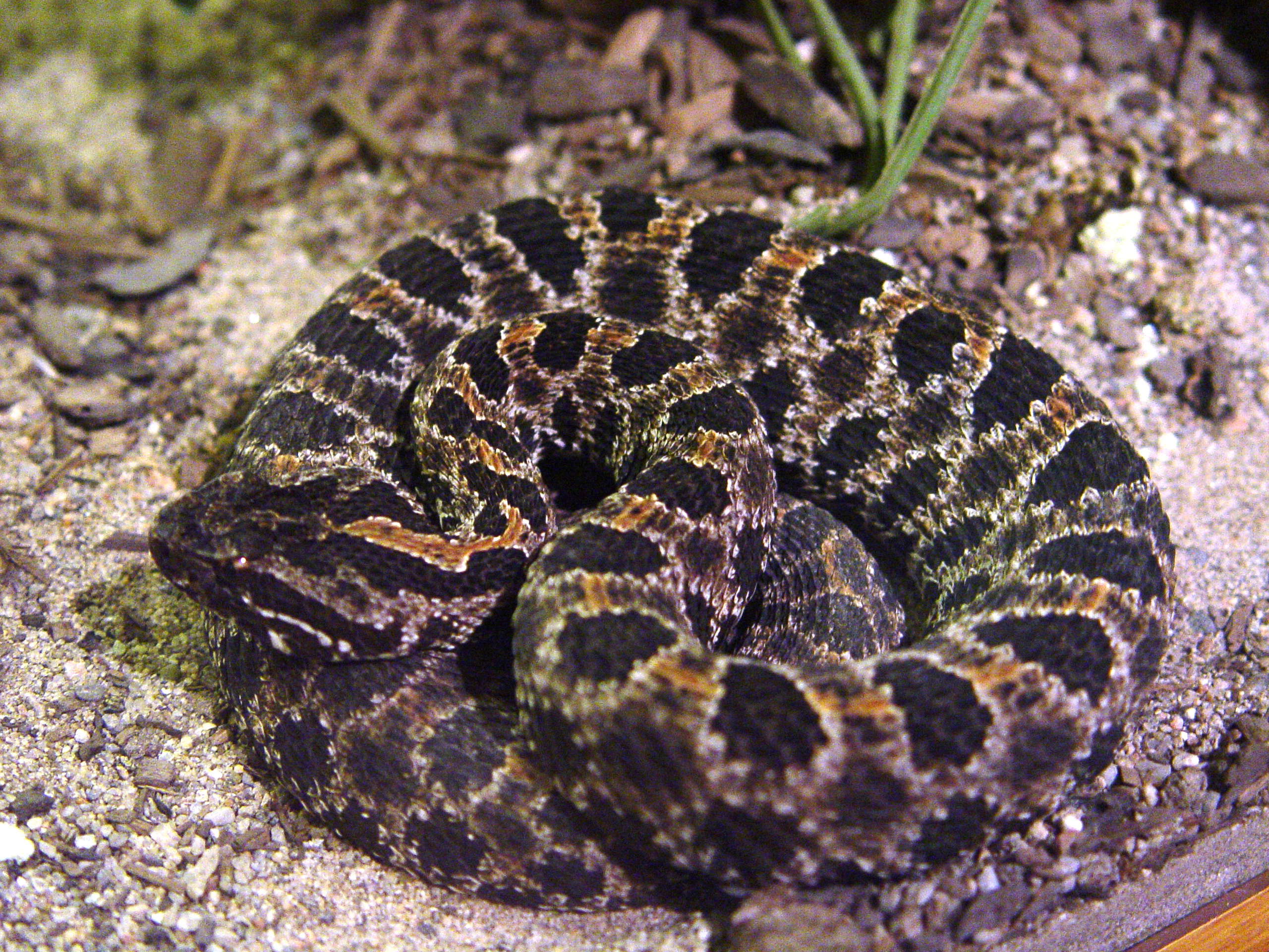 Dusty pigmy rattlesnake (Sistrurus miliarius barbouri) at the American International Rattlesnake Museum